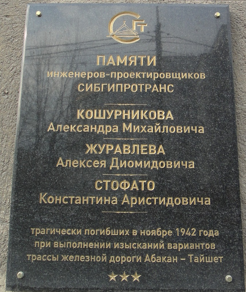 Доска Кошурникову